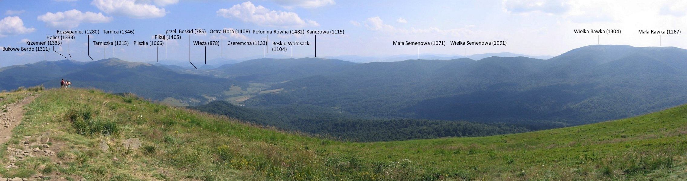 View from Połonina Caryńska (southern side)